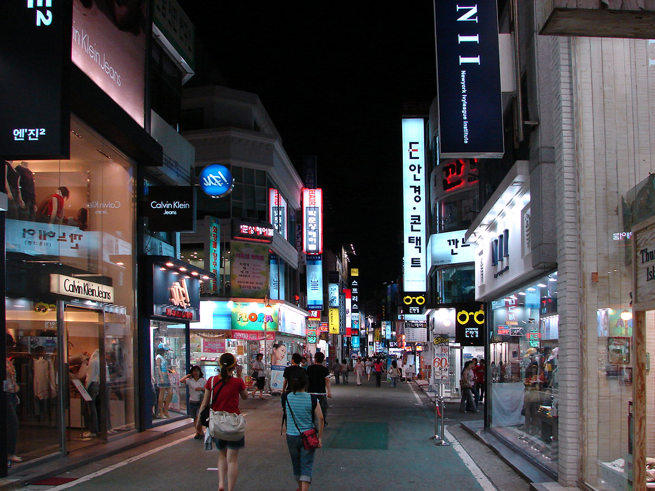 Gwangju South Korea after dark